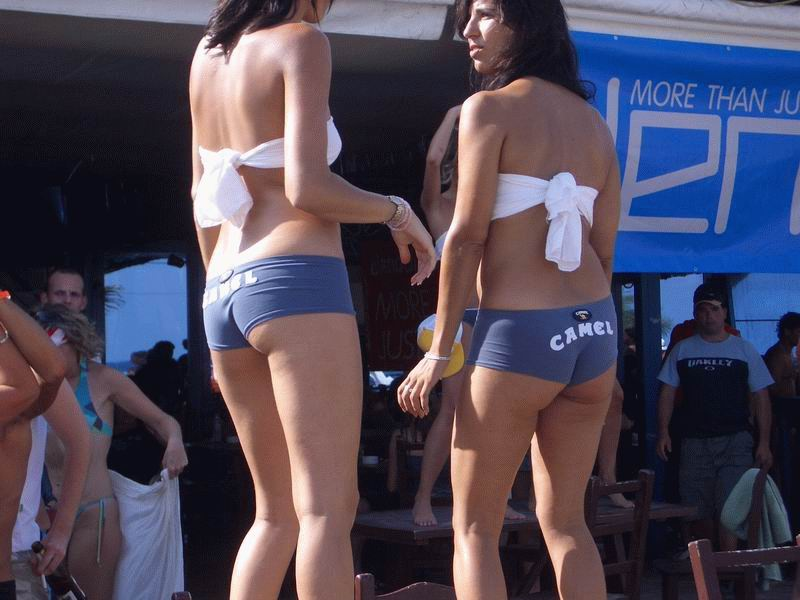 Two young women in skimpy outfits, Ibiza